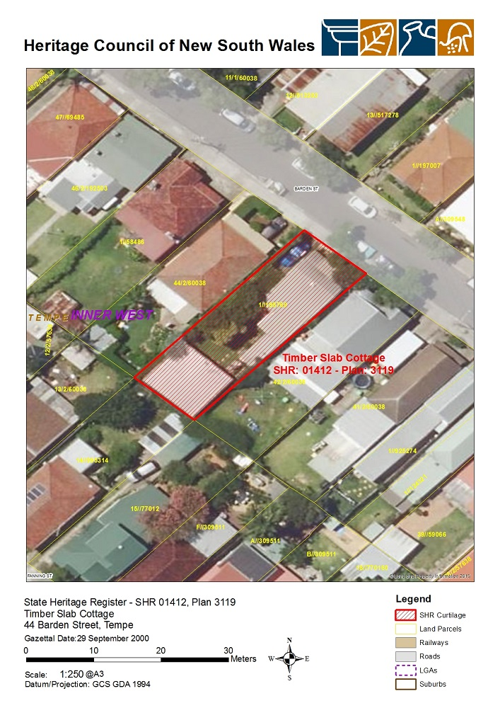 Timber Slab Cottage, Tempe: SHR Plan 3119